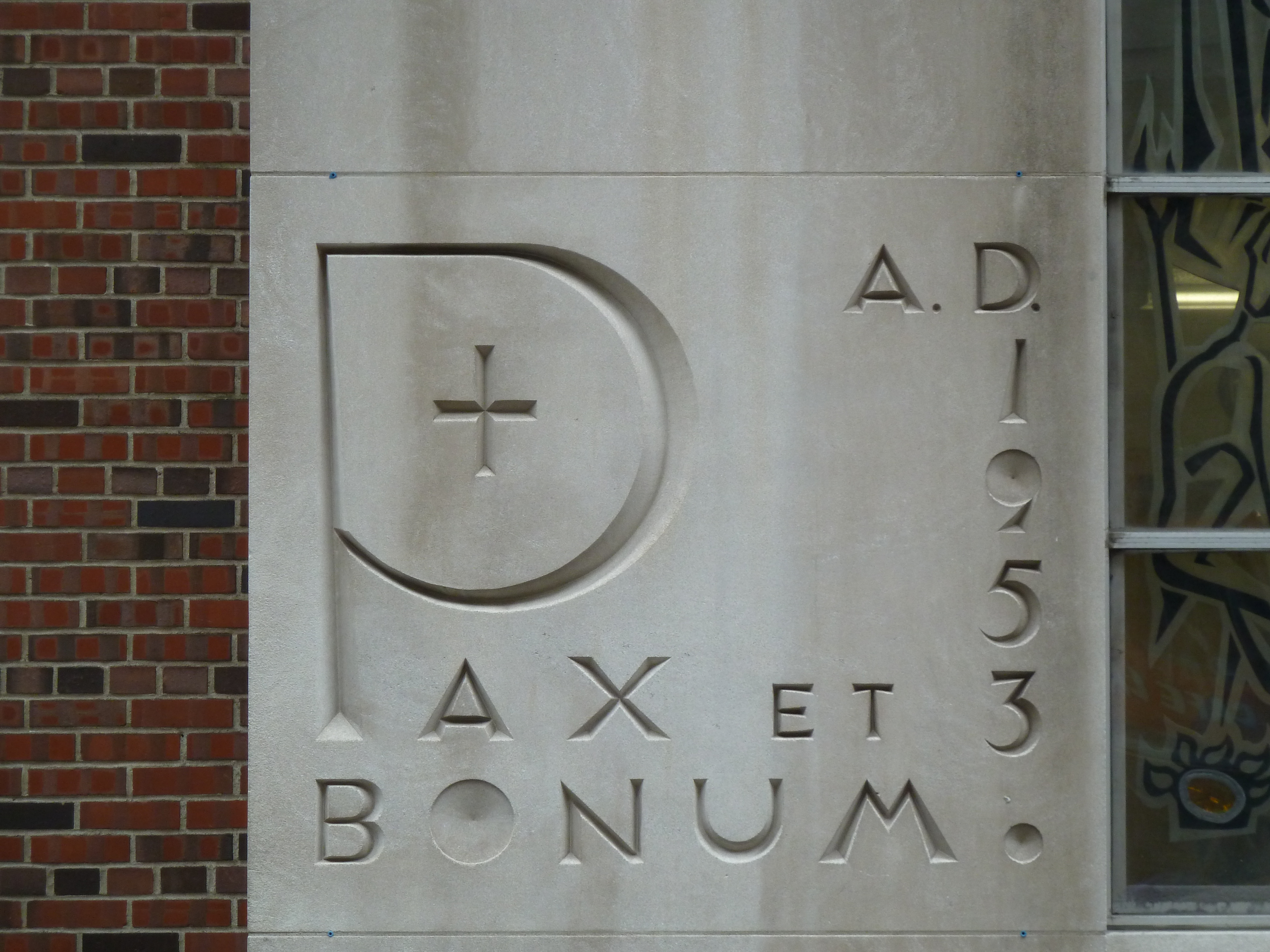 Saint Anthony Shrine, Boston, Massachusetts